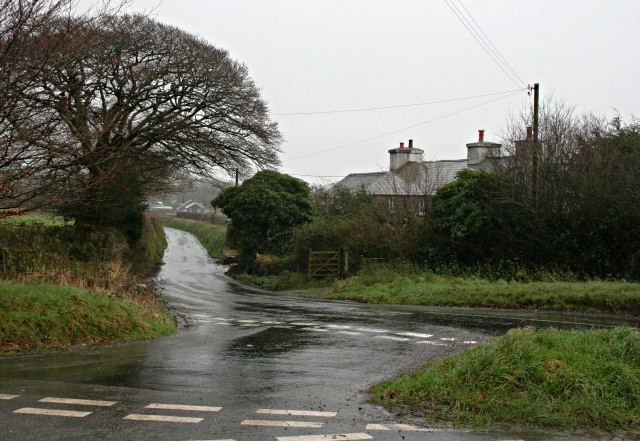 Road Junction at Amy Tree No less than 6 minor roads join here in a complex junction. This is at the head of a steep valley which runs south from here. There is no other east-west route for some distance to the south. Taken in the middle of a heavy rain shower.